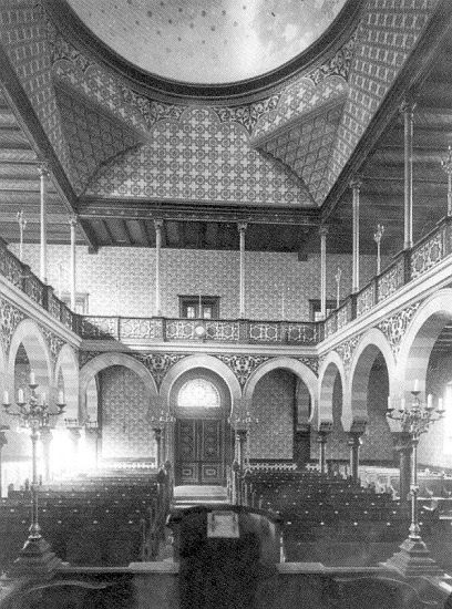 Synagogue of Aschaffenburg in Bavaria, built in 1893 and destroyed by the nazis in 1938.